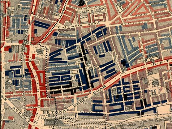 Poverty map of Old Nichol slum, East End of London, showing Bethnal Green Road, from Charles Booth's Labour and Life of the People. Volume 1: East London (London: Macmillan, 1889). The streets are colored to represent the economic class of the residents: Yellow (“Upper-middle and Upper classes, Wealthy”), red ("Lower middle class - Well-to-do middle class"), pink ("Fairly comfortable good ordinary earnings"), blue ("Intermittent or casual earnings"), and black ("lowest class...occasional labourers, street sellers, loafers, criminals and semi-criminals")